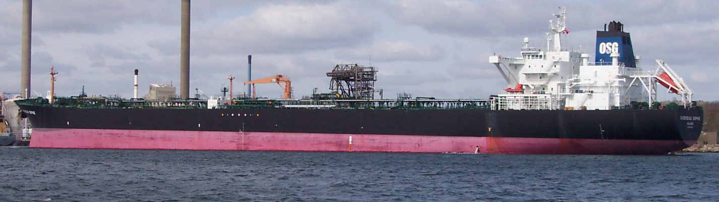 A picture of Overseas Sophie, owned by Overseas Shipholding Group, in Lillebælt, Fredericia, Denmark. Taken using a Kodak EasyShare DX4330 camera.